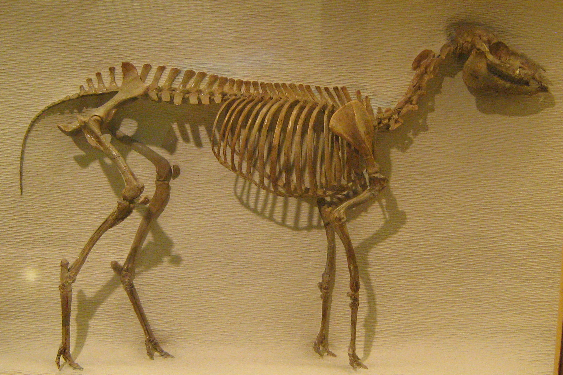 Picture of a reconstructed fossil of Mesohippus barbouri at the Harvard Museum of Natural History. This one lived in South Dakota, United States, 30 million years ago.